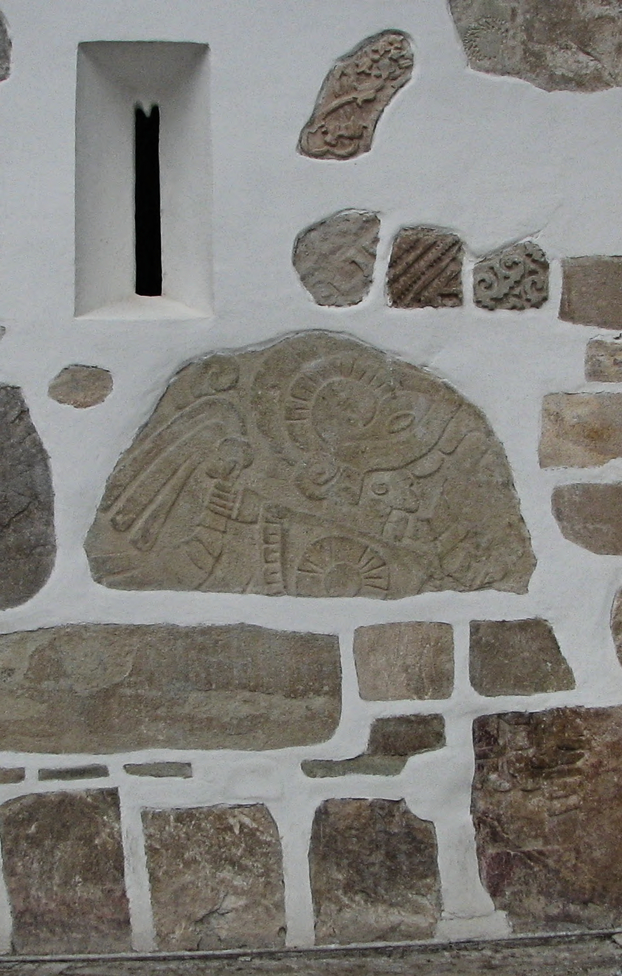 Detail of Preciosa Sangre de Cristo Church en Teotitlán del Valle, Oaxaca, Mexico